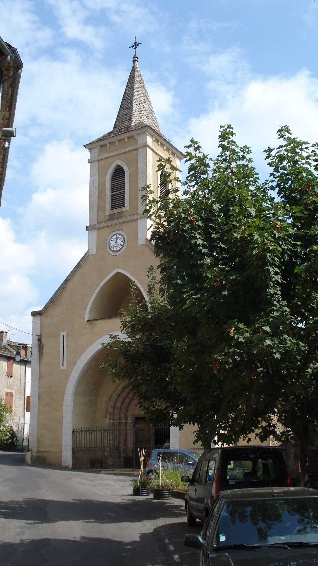 St Germain de Calberte's Church